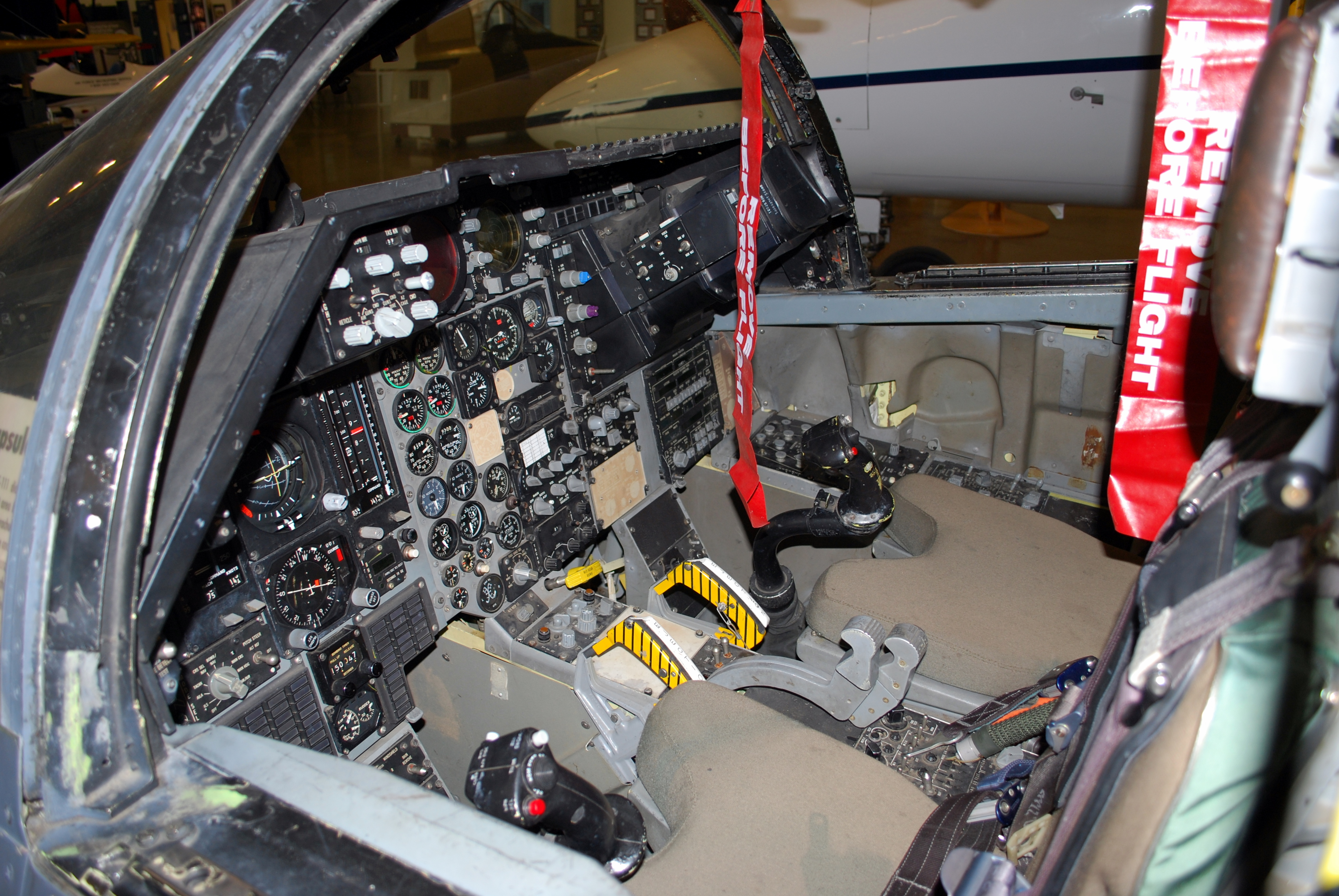 The F-111 cockpit simulator.